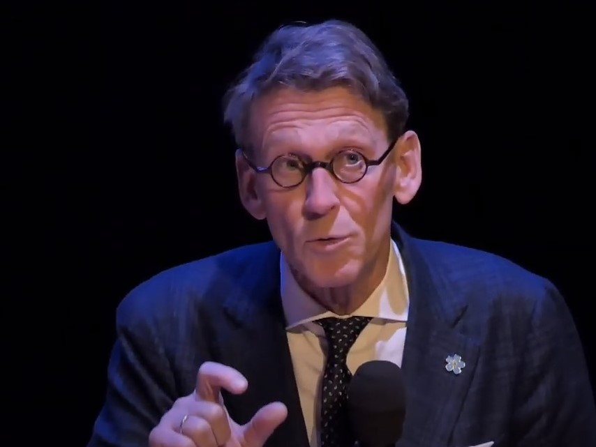 16 januari 2018 @ Factorium, Tilburg In Nederland lijden ongeveer 260.000 mensen aan dementie. Dit aantal zal als gevolg van de vergrijzing en de toegenomen levensverwachting alleen maar toenemen. Van hen heeft zo’n 70 procent de ziekte van Alzheimer. Een ongeneeslijke ziekte, maar voor hoe lang nog?